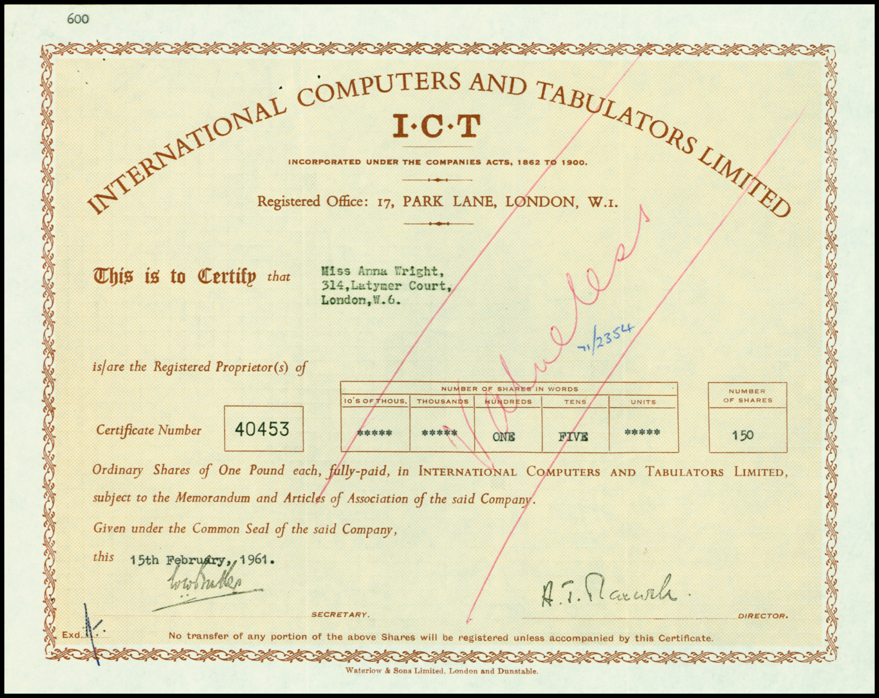 Share of the International Computers and Tabulators Ltd., issued 15. May 1961